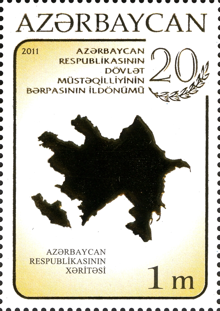 The 20th. Anniversary of the Restoration of State Independence of the Republic of Azerbaijan.